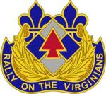 United States Army's 116th Infantry Brigade Combat Team distinctive unit insignia